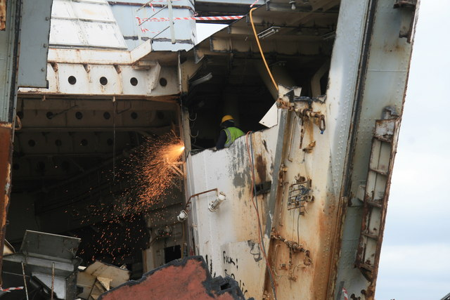 The end of an era